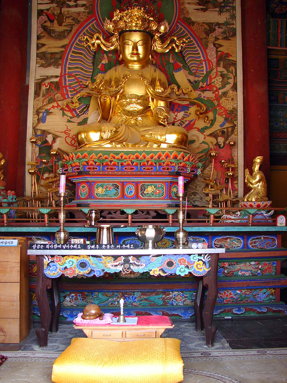 Beopjusa (법주사), initially constructed in 553, is a head temple of the Jogye Order of Korean Buddhism situated on the slopes of Songnisan in Naesongni-myeon, Boeun County, in the province of Chungcheongbuk-do, South Korea.